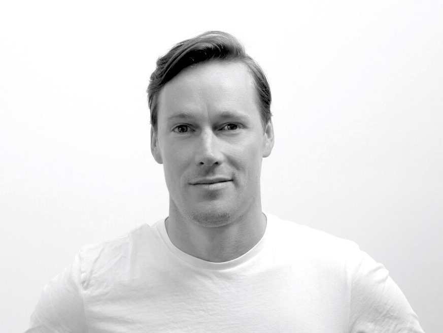 Image of Kaine Harling in 2018